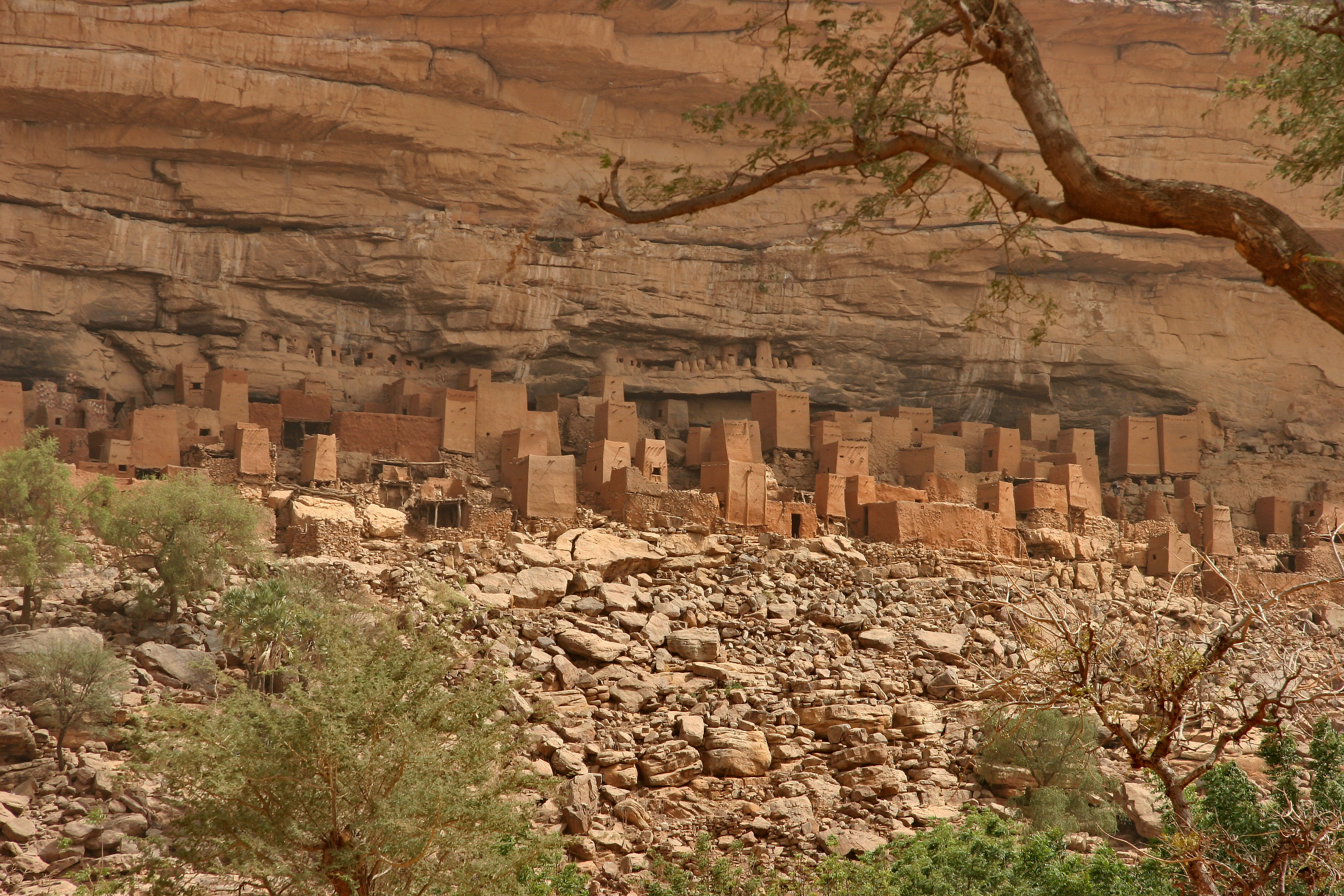 Cliff dwellings in the Bandiagara escarpment — in the Sahel region of Mali.